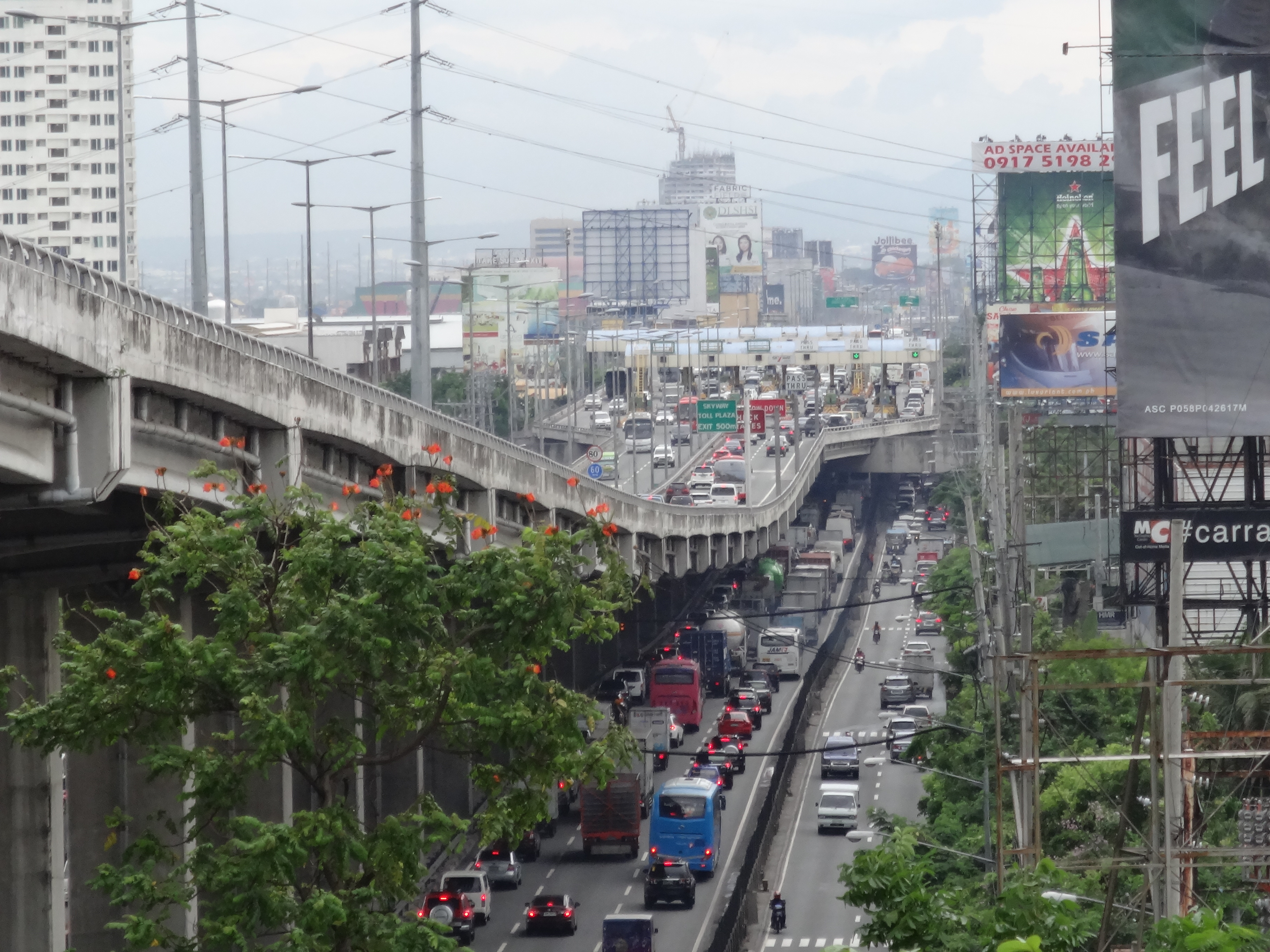 A toll plaza of Metro Manila Skyway near Sucat, Muntinlupa City. This portion of the elevated toll road was constructed from 2009-2011.